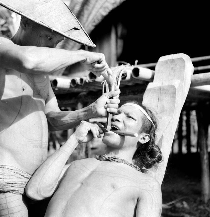 Chiseling teeth, Mentawai Islands